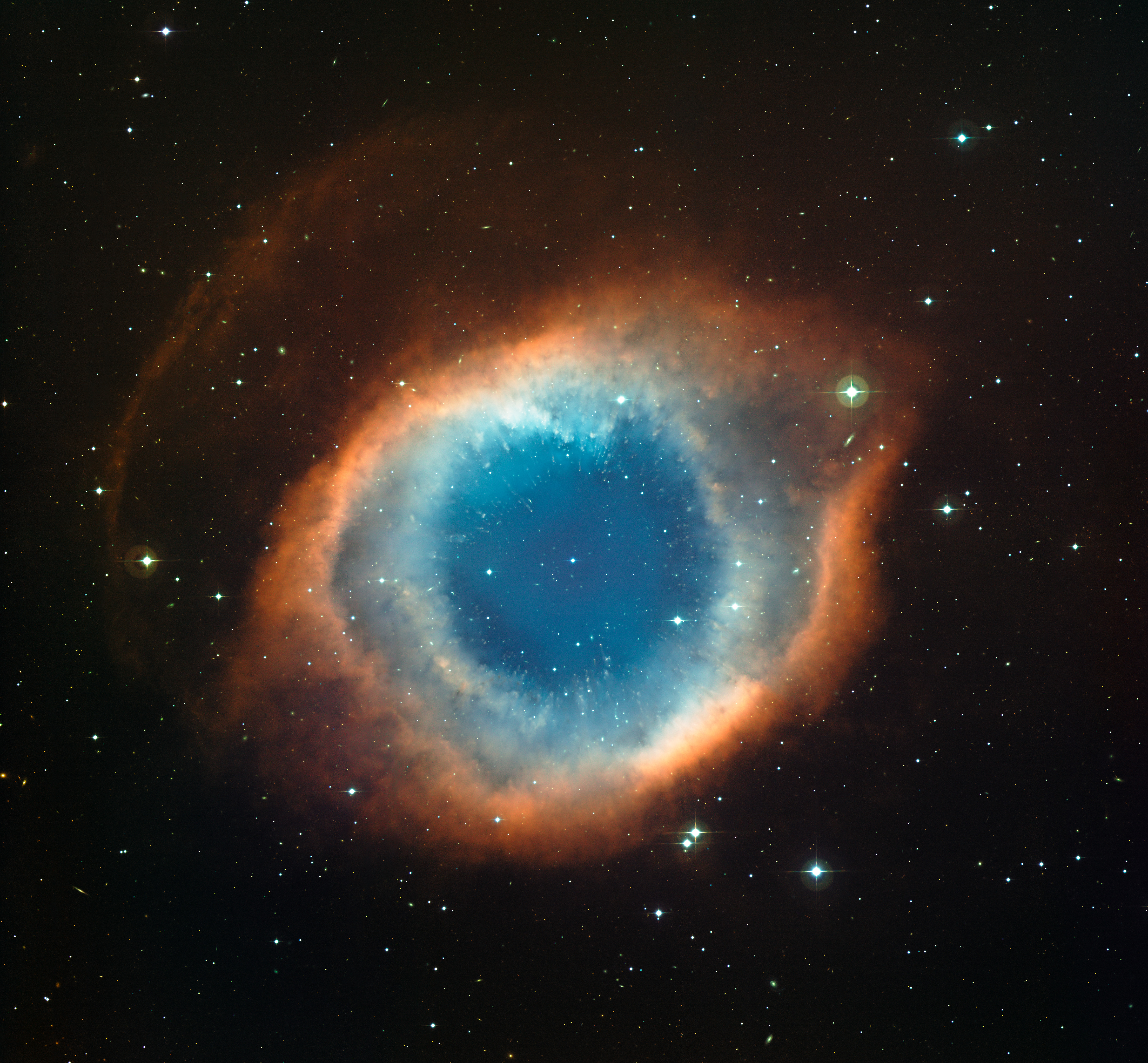 This colour-composite image of the Helix Nebula (NGC 7293) was created from images obtained using the the Wide Field Imager (WFI), an astronomical camera attached to the 2.2-metre Max-Planck Society/ESO telescope at the La Silla observatory in Chile. The blue-green glow in the centre of the Helix comes from oxygen atoms shining under effects of the intense ultraviolet radiation of the 120 000 degree Celsius central star and the hot gas. Further out from the star and beyond the ring of knots, the red colour from hydrogen and nitrogen is more prominent. A careful look at the central part of this object reveals not only the knots, but also many remote galaxies seen right through the thinly spread glowing gas. This image was created from images through blue, green and red filters and the total exposure times were 12 minutes, 9 minutes and 7 minutes respectively.